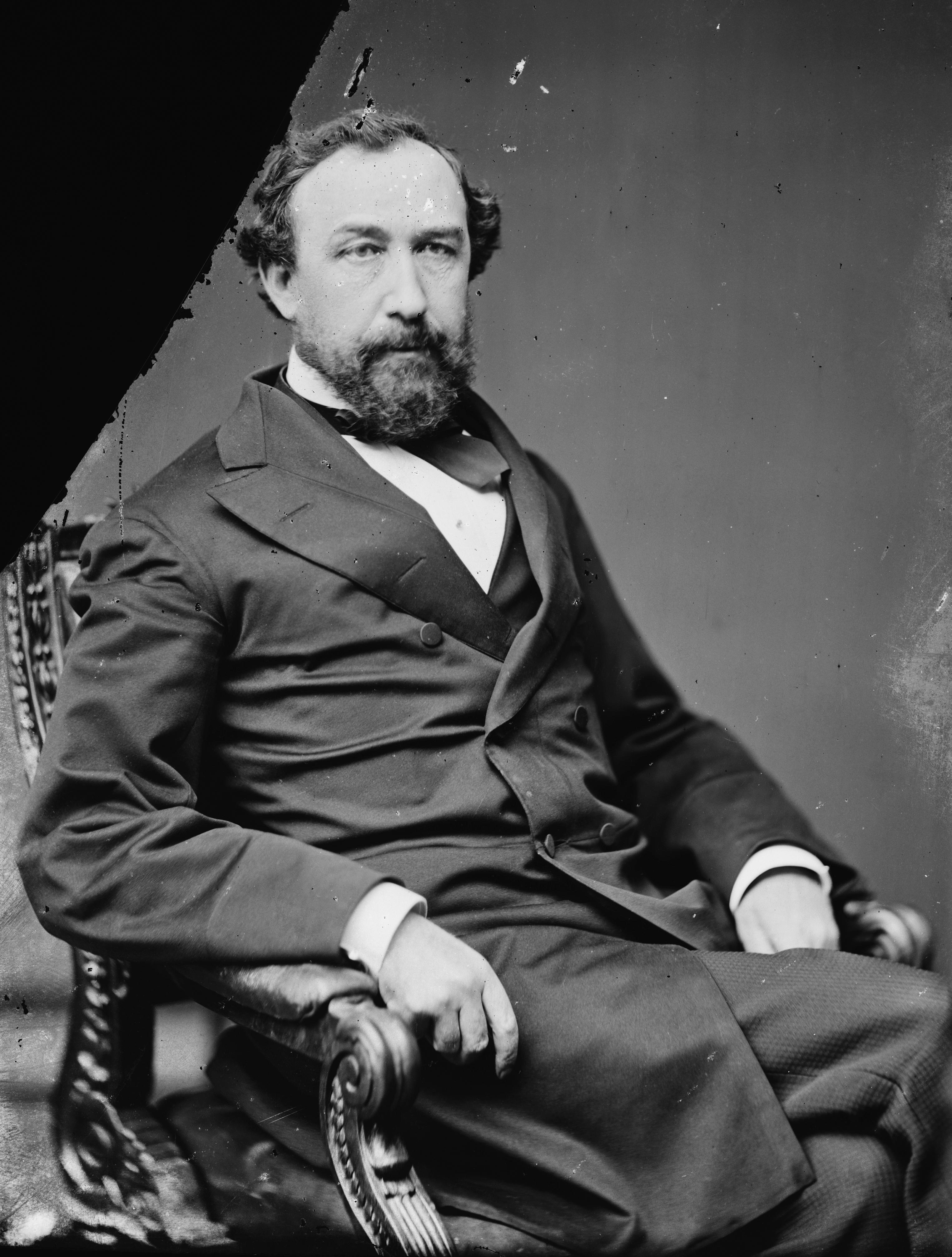 Newton Booth. Library of Congress description: "Booth, Hon. Newton of Cal"